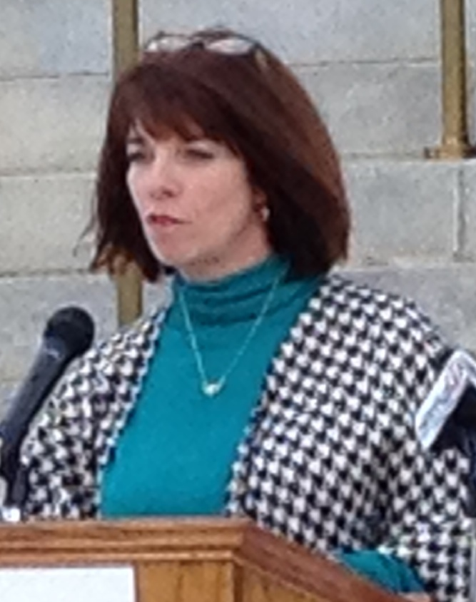 Cheri Barry, former mayor of Meridian, Mississippi, speaking at the dedication ceremony after the restoration of Meridian City Hall on January 31, 2012